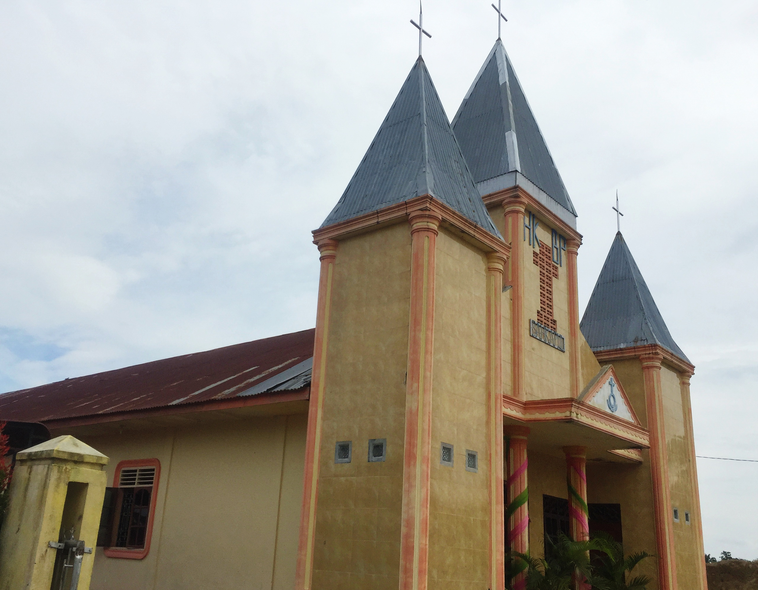 HKBP Bah Kapul, Church in Siantar Sitalasari, Pematangsiantar